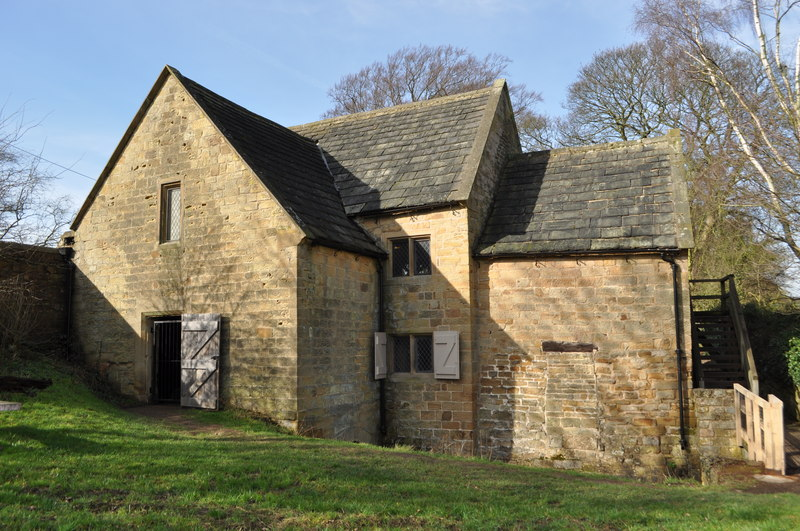 Stainsby Mill, near to Doe Lea, Derbyshire, Great Britain. A view of the mill, the door to the left is the wheel room. The part to the right is the grain drying room.